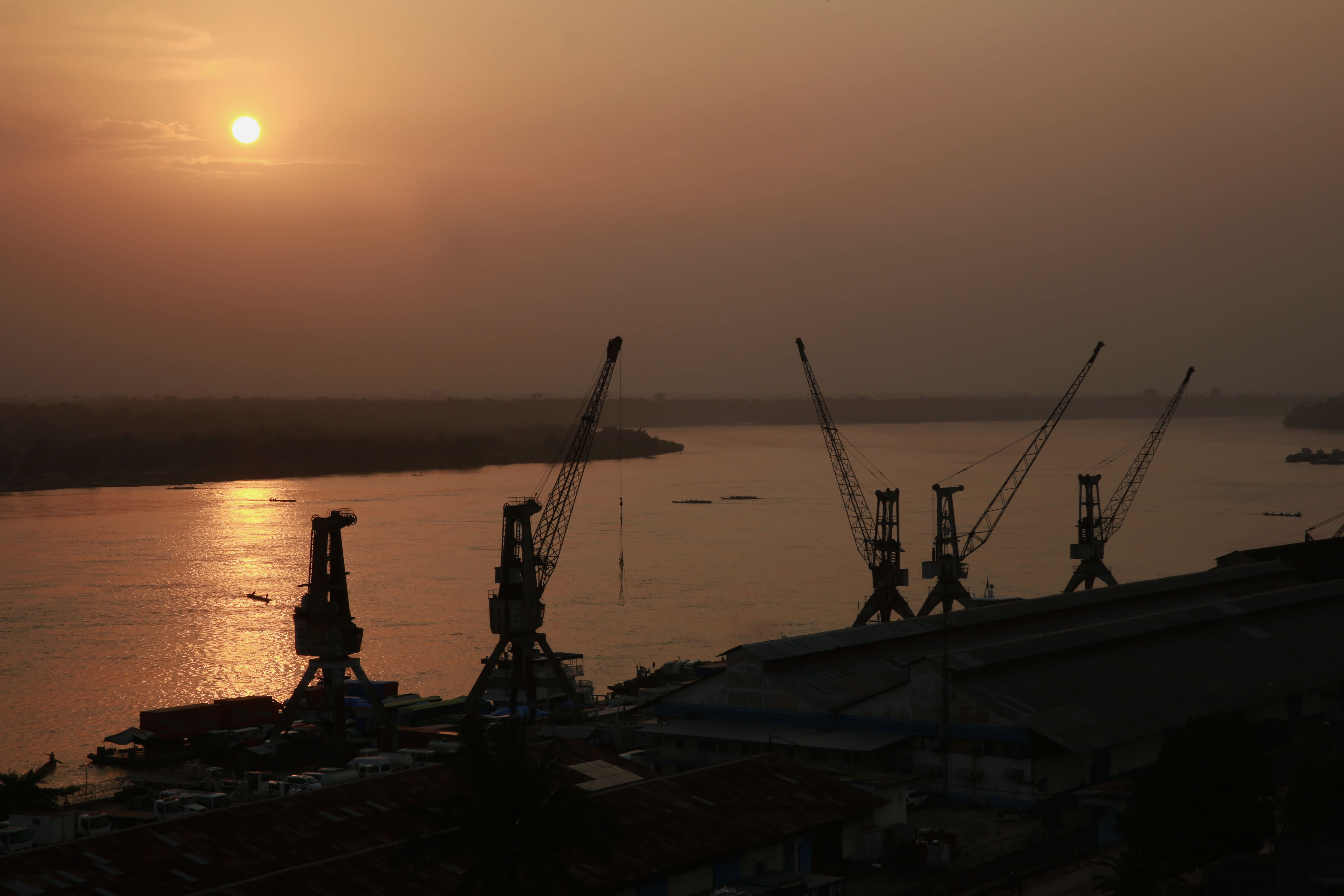 Kisangani, Oriental Province, DR Congo, 05 January 2015: Sunset over the river Congo. Photo MONUSCO/Abel Kavanagh